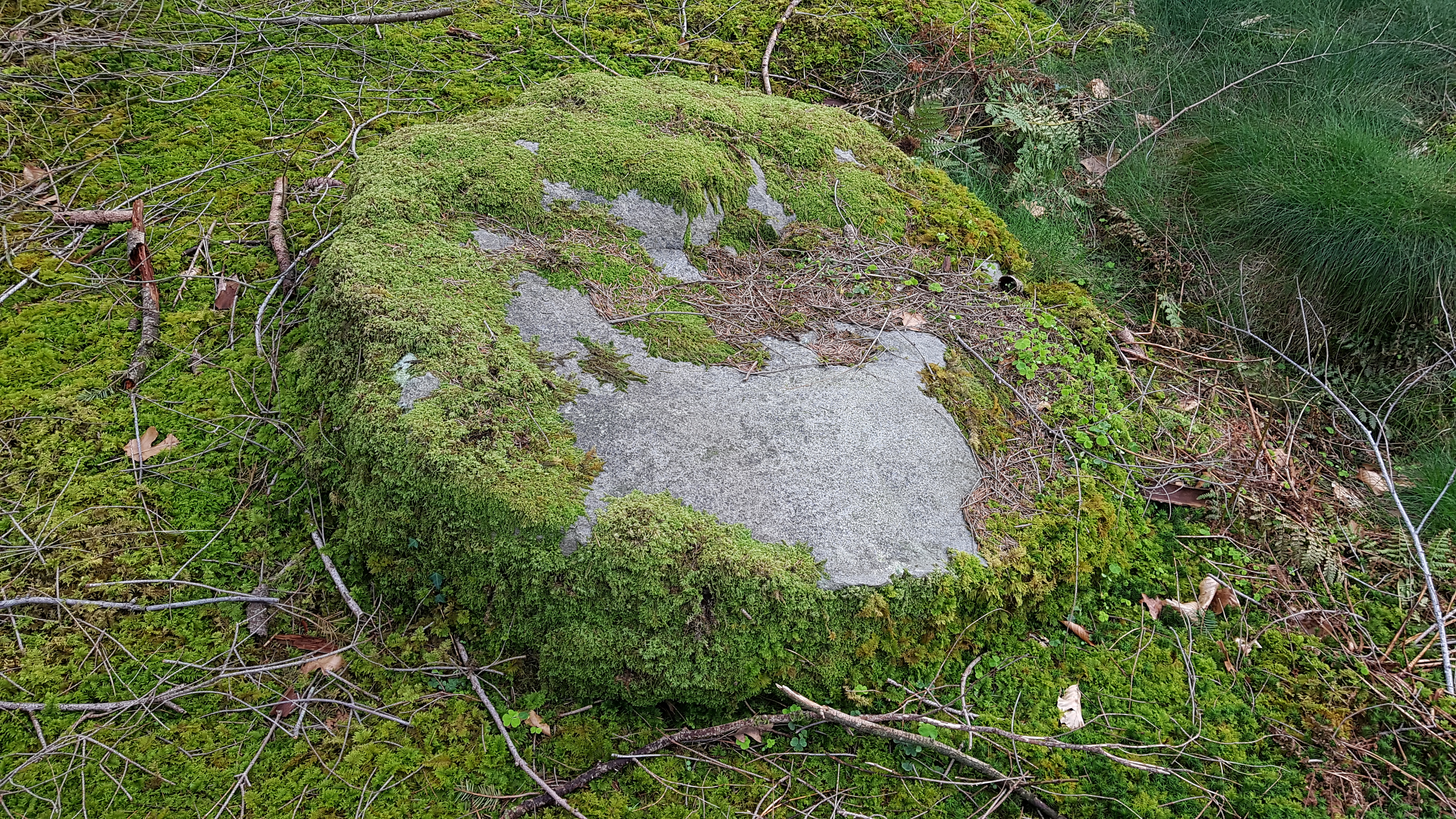 Unfinished millstone covered by moss in the Andatza mountain of Usurbil (Basque Country)